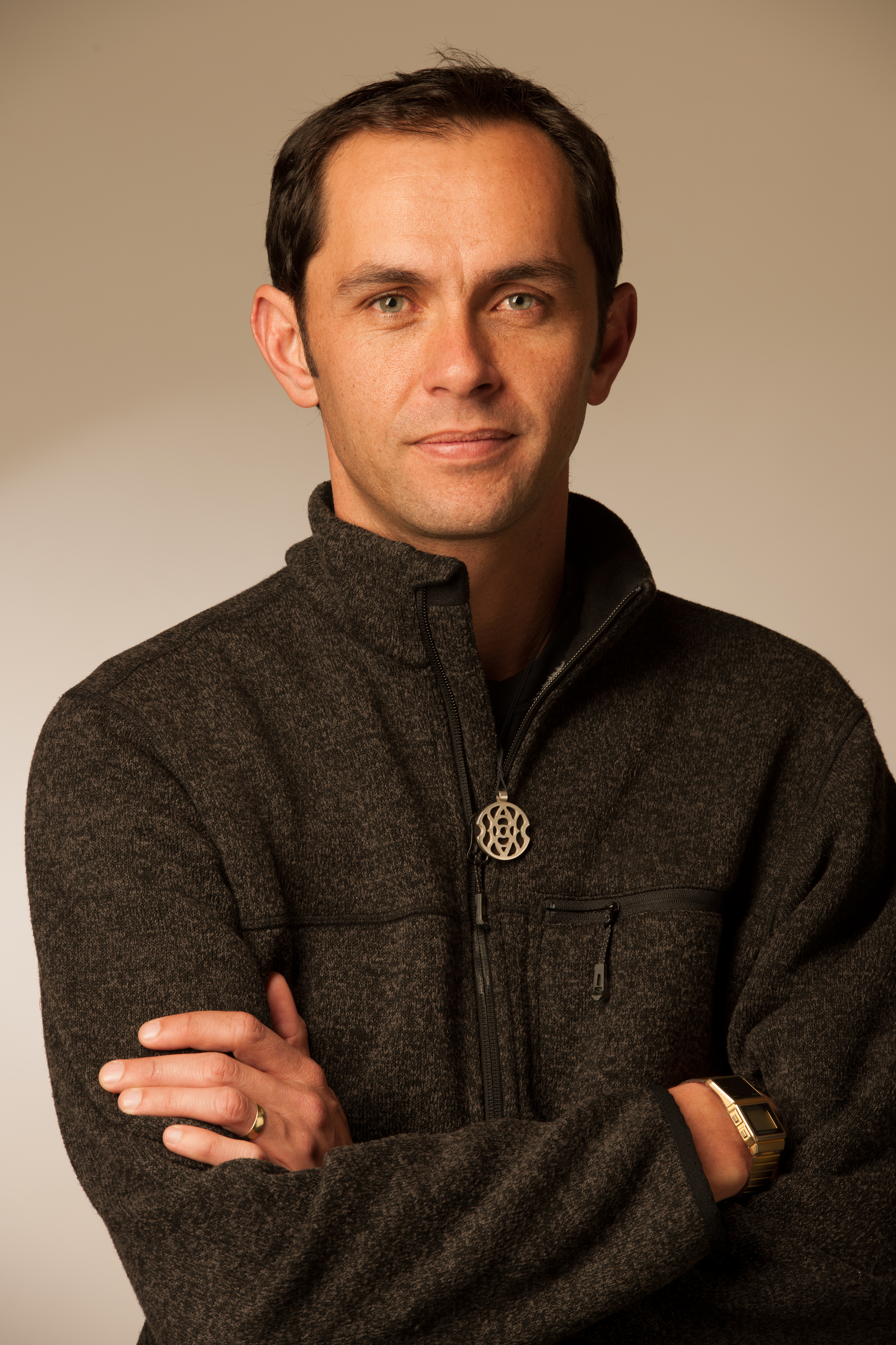 Alan Knott-Craig, South African entrepreneur